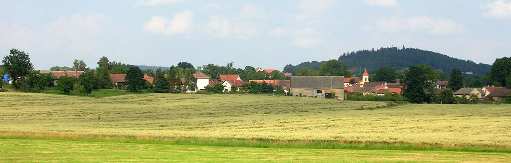 Sedlčany-Solopysky, Příbram District, Central Bohemian Region, the Czech Republic.